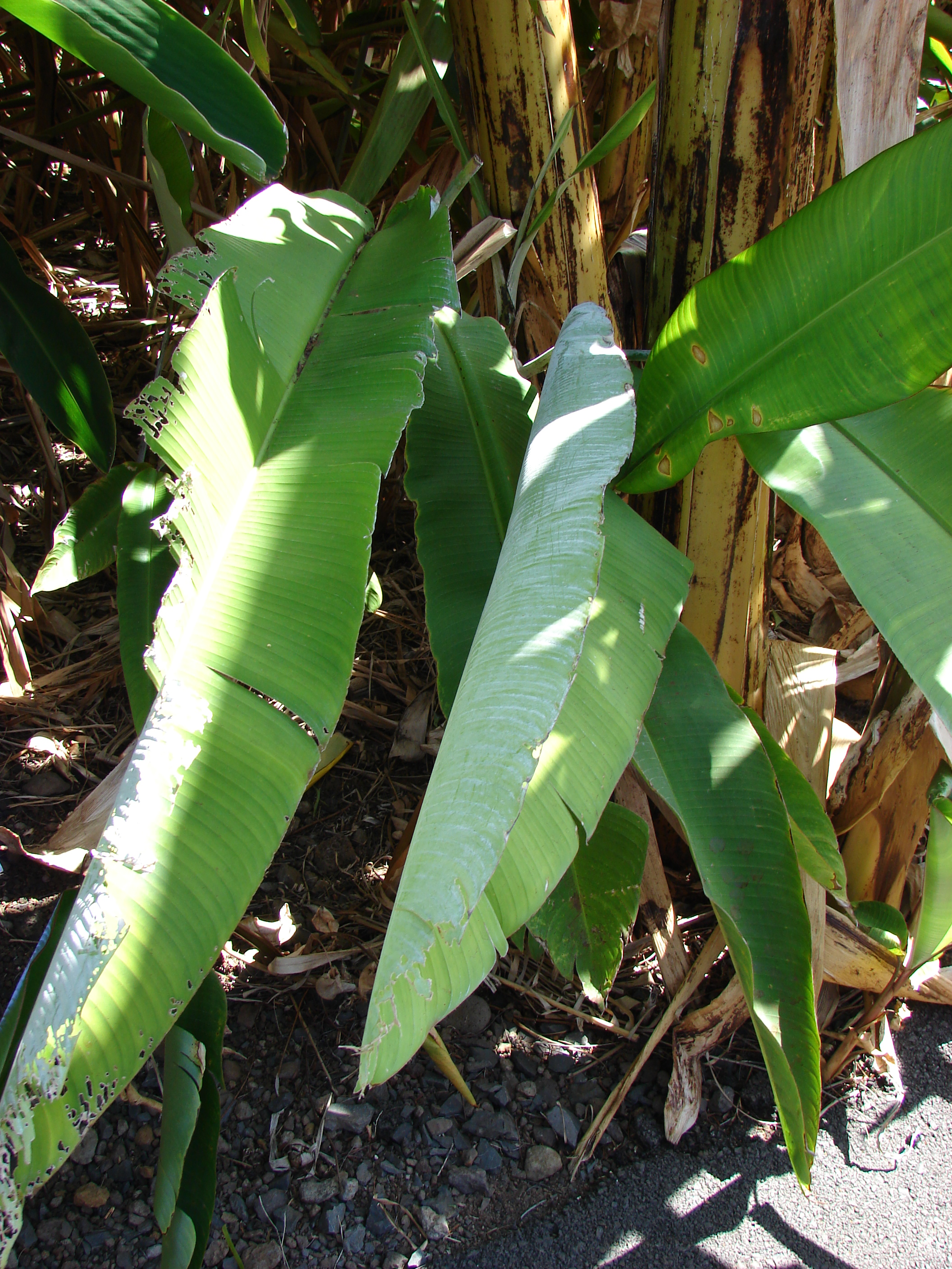 Heliconia collinsiana (leaves). Location: Maui, Enchanting Floral Gardens of Kula